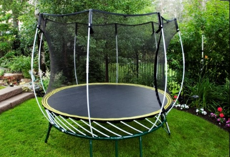 Springfree Trampolines